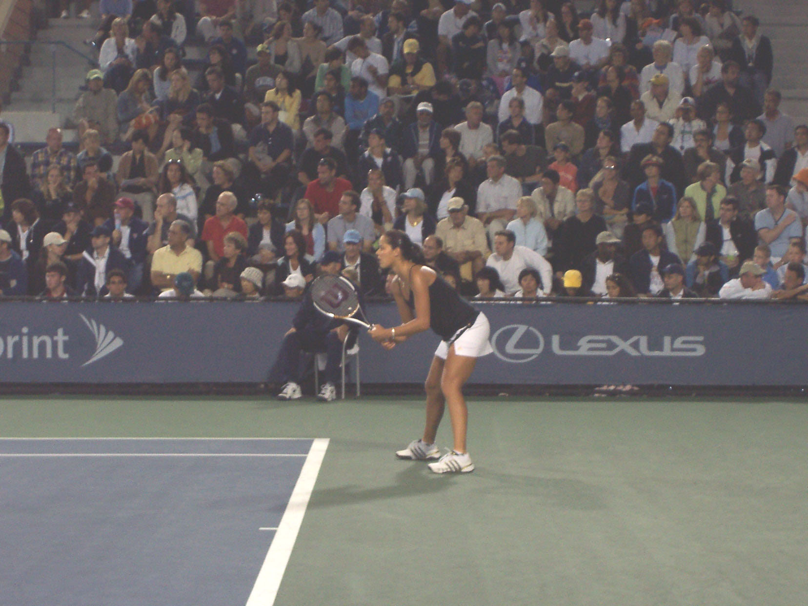 Ana Ivanovic At The 2006 U.S. Open